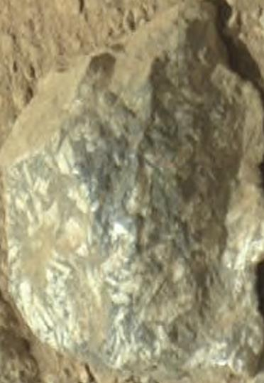 Bluish-Black Rock with White 'Crystals' on Mars